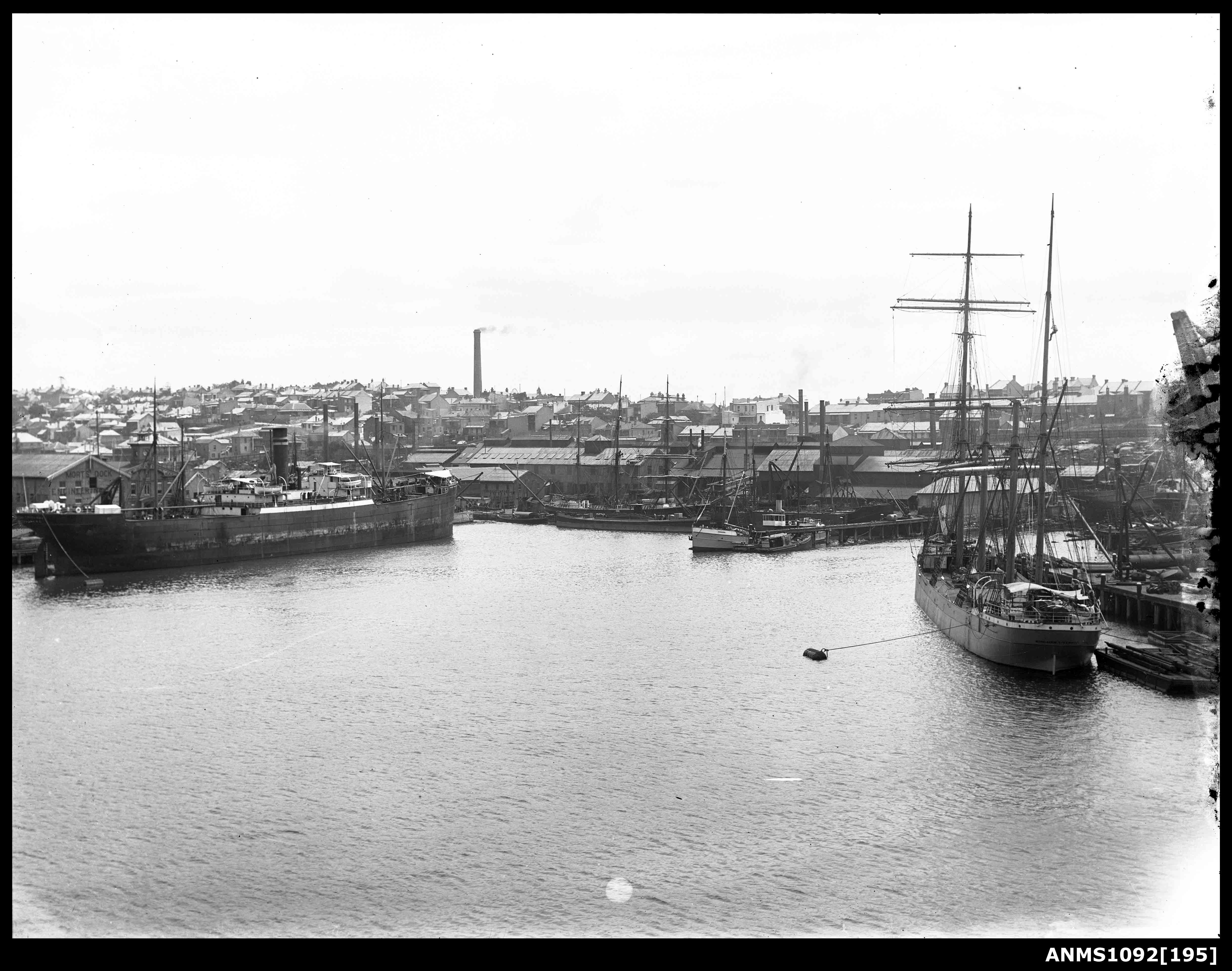 Mort’s Dock, Sydney. At lower right is a large single funnel cargo-passenger ship alongside the wharf. A four-masted fully rigged ship also appears alongside the wharf. SS WANDRA, a small single funnel vessel, is seen moored at a jetty and possibly BENCAIRN-Liverpool. Also captured is a four masted barque alongside the wharf with it’s main and mizzen masts minus their topmasts. This photo is part of the Australian National Maritime Museum’s William J Hall collection. The Hall collection provides an important pictorial record of recreational boating in Sydney Harbour, from the 1890s to the 1930s – from large racing and cruising yachts, to the many and varied skiffs jostling on the harbour, to the new phenomenon of motor boating in the early twentieth century. The collection also includes images of the many spectators and crowds who followed the sailing races. The ANMM undertakes research and accepts public comments that enhance the information we hold about images in our collection. This record has been updated accordingly. Object no. ANMS1092[195]